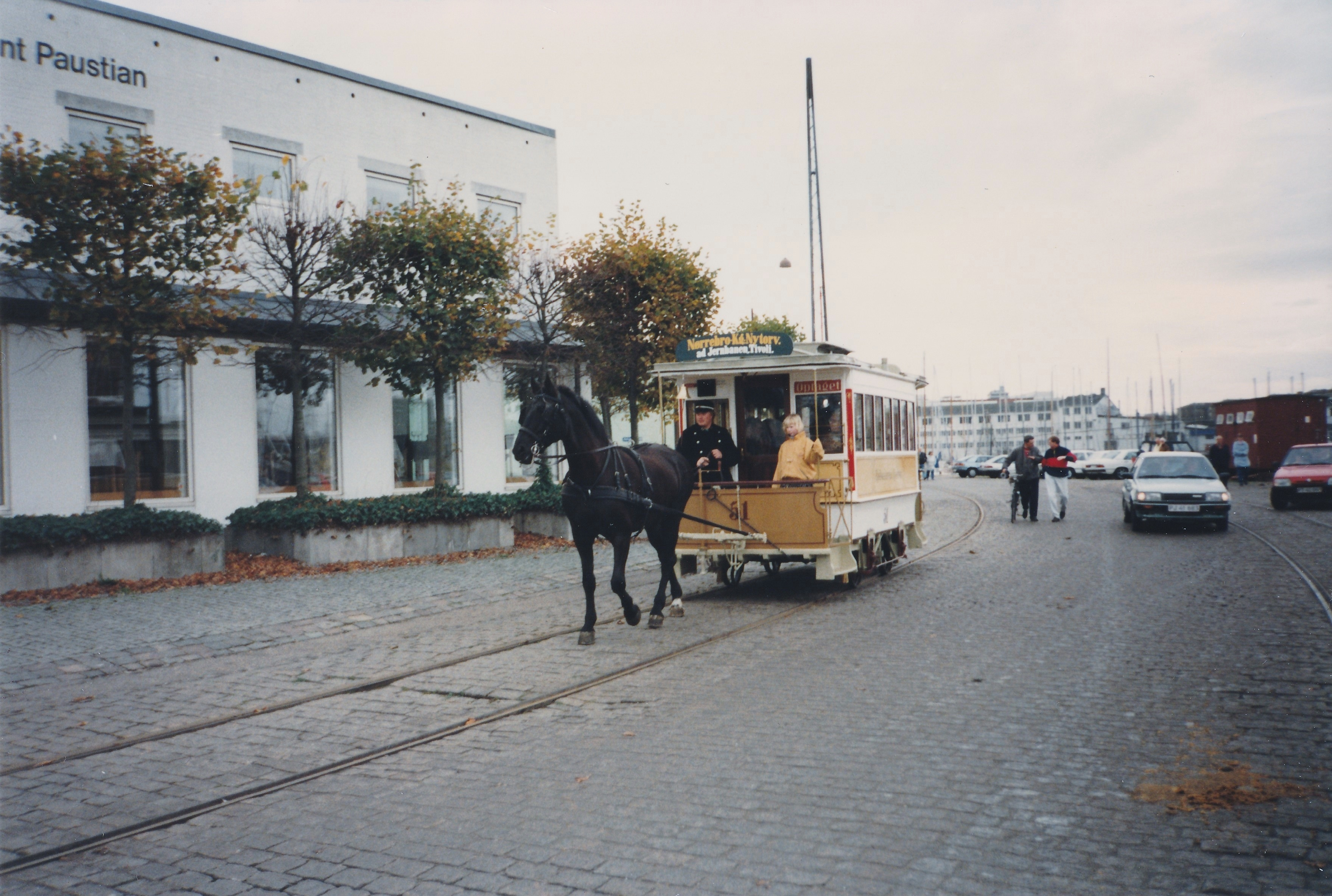 The horse-drawn tram KSS 51 from 1876 was restored by the owner HT Museum in 1995-1996. The result was presented on an old harbor track in Kalkbrænderihavnen in Copenhagen during a weekend of October 1996.